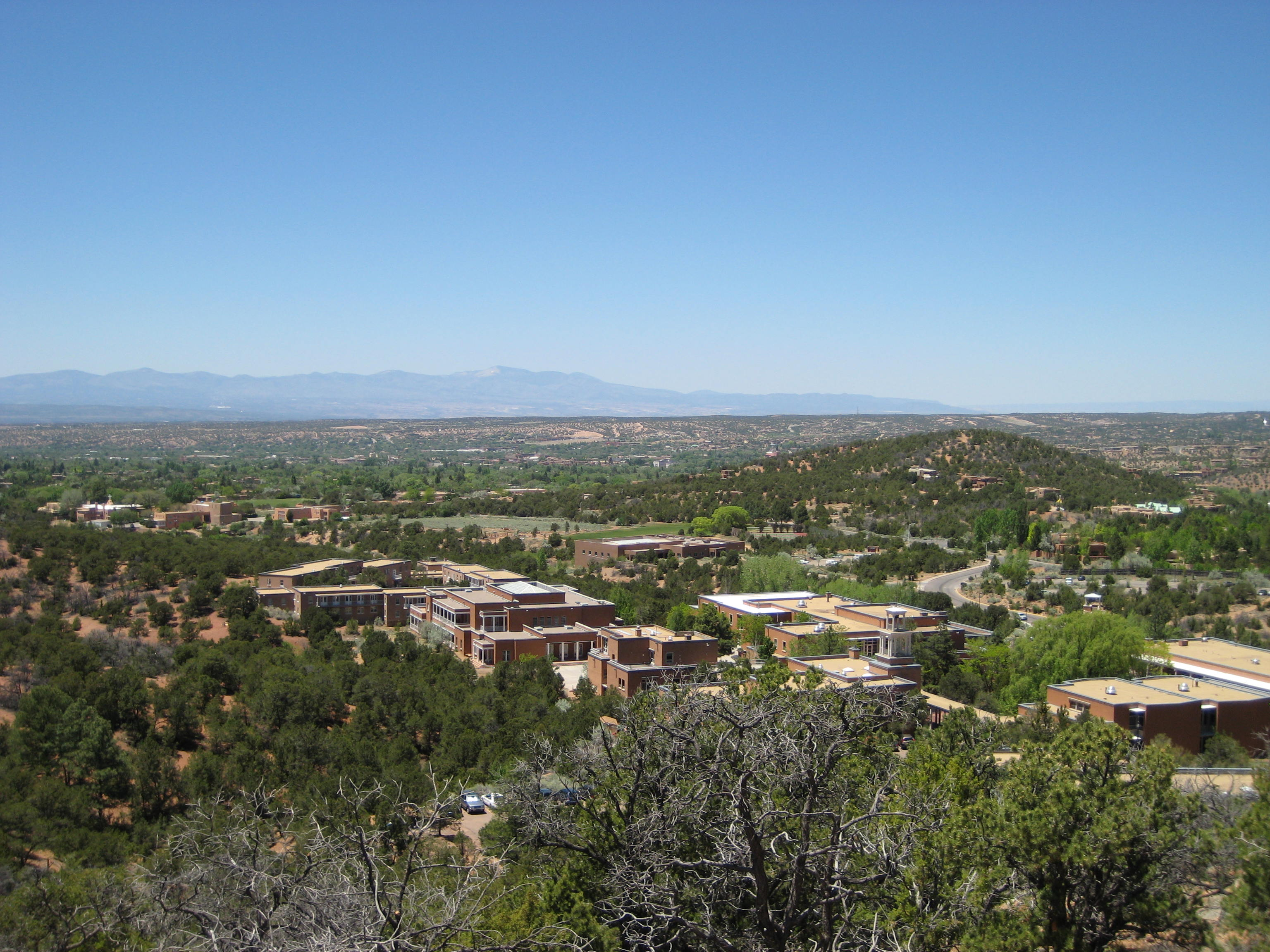 St. John's College Santa Fe Campus from the slopes of Monte Luna